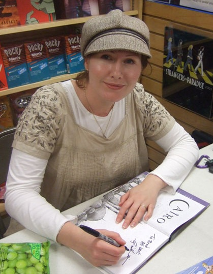 Crop of a photo of G. Willow Wilson, taken on July 1, 2009 at the Comicopia store in Boston, Massachusetts